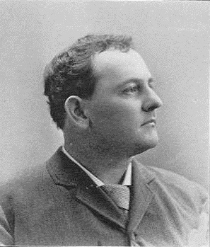 Tom L. Johnson, politician from Ohio.